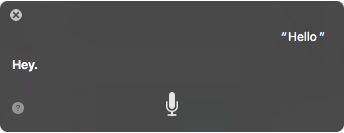 Screenshot of the Siri interface in macOS Sierra